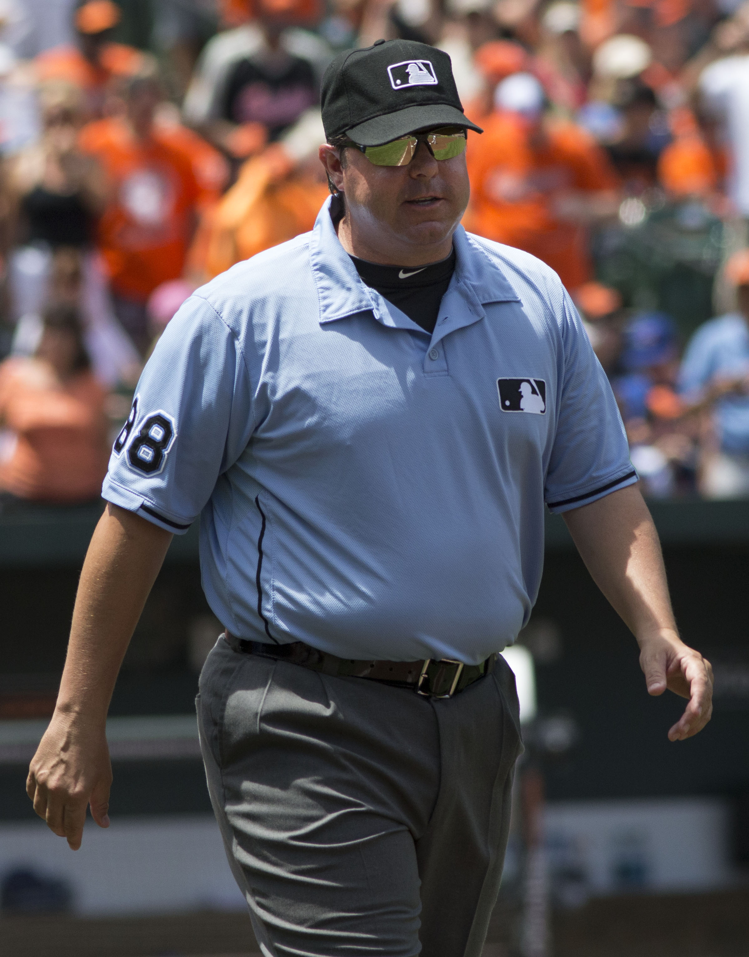 Umpire Doug Eddings at a Baltimore Orioles–Toronto Blue Jays game on July 14, 2013